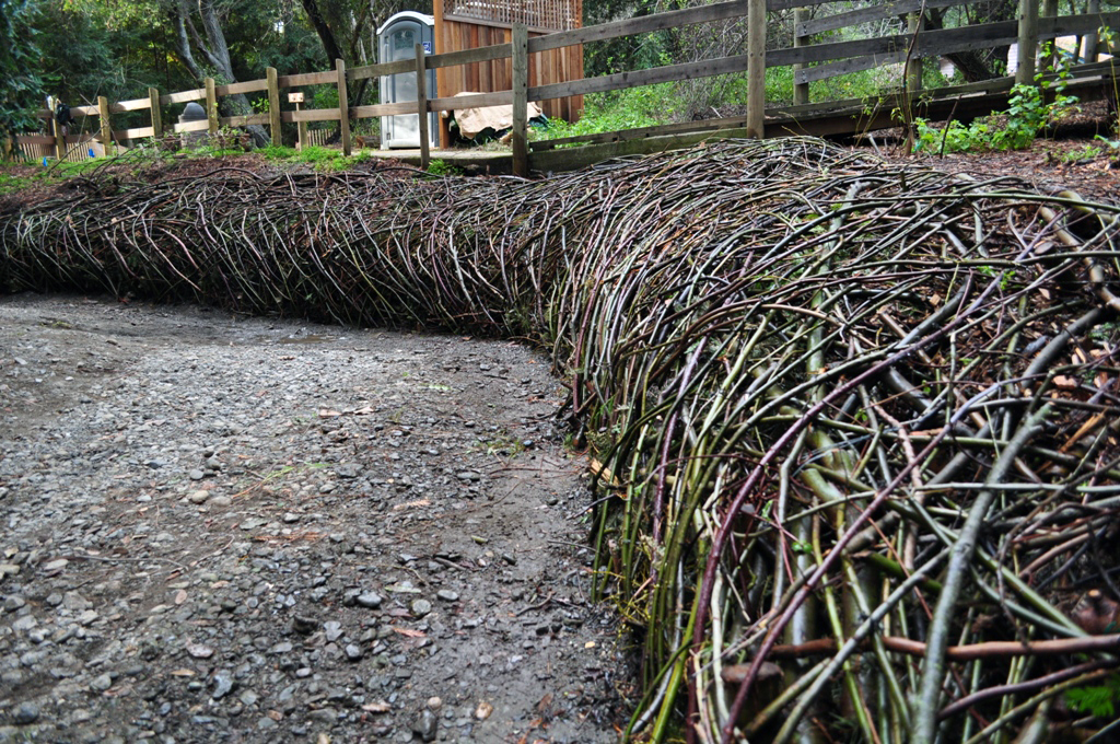 This biological sculpture is a living retaining wall that repairs an eroded bank on Adobe Creek in Redwood Grove, Los Altos, California. It is a sculpture called 'Thicket' created by artist Daniel McCormick, Mary O'Brien and a host of community volunteers.